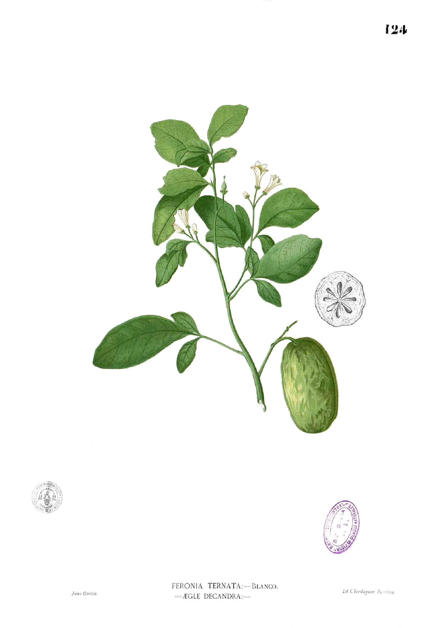 Plate from book